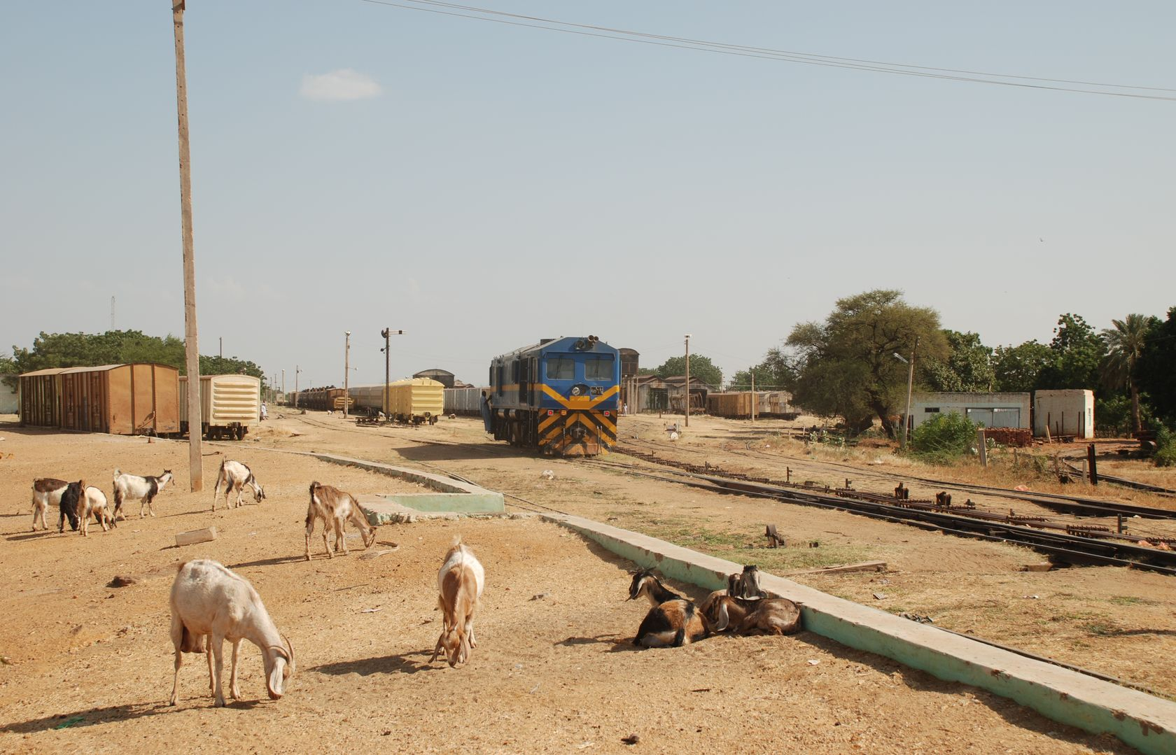 Railway station, Kosti, Sudan